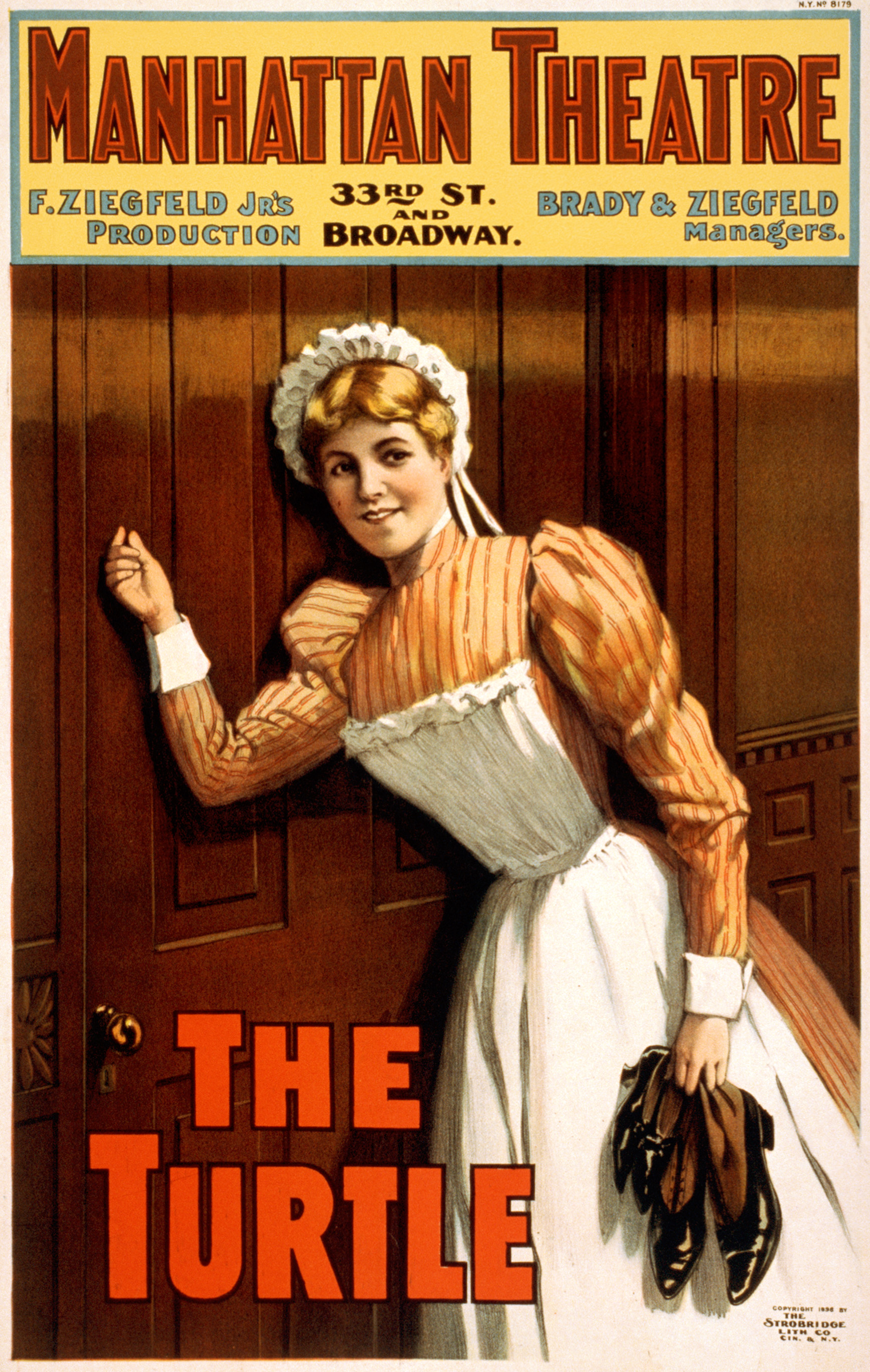 Manhattan Theatre, 33rd St. and Broadway, presents Florenz Ziegfeld Jr's production The Turtle. Brady & Ziegfeld, managers.